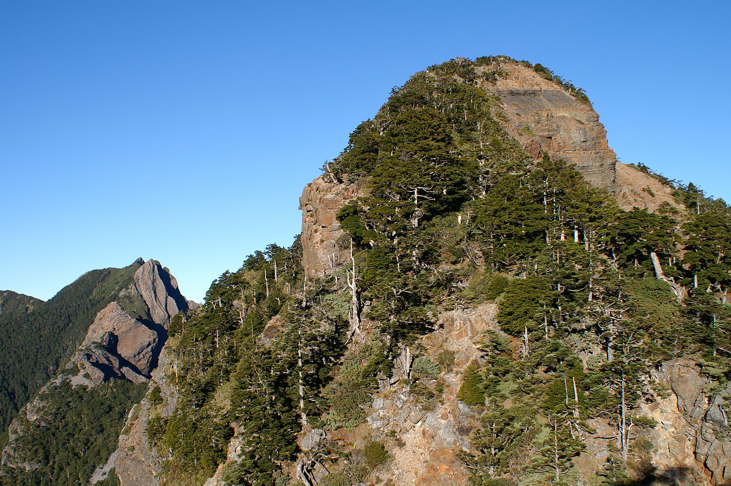 Pintien Mountain, Taiwan 台灣品田山